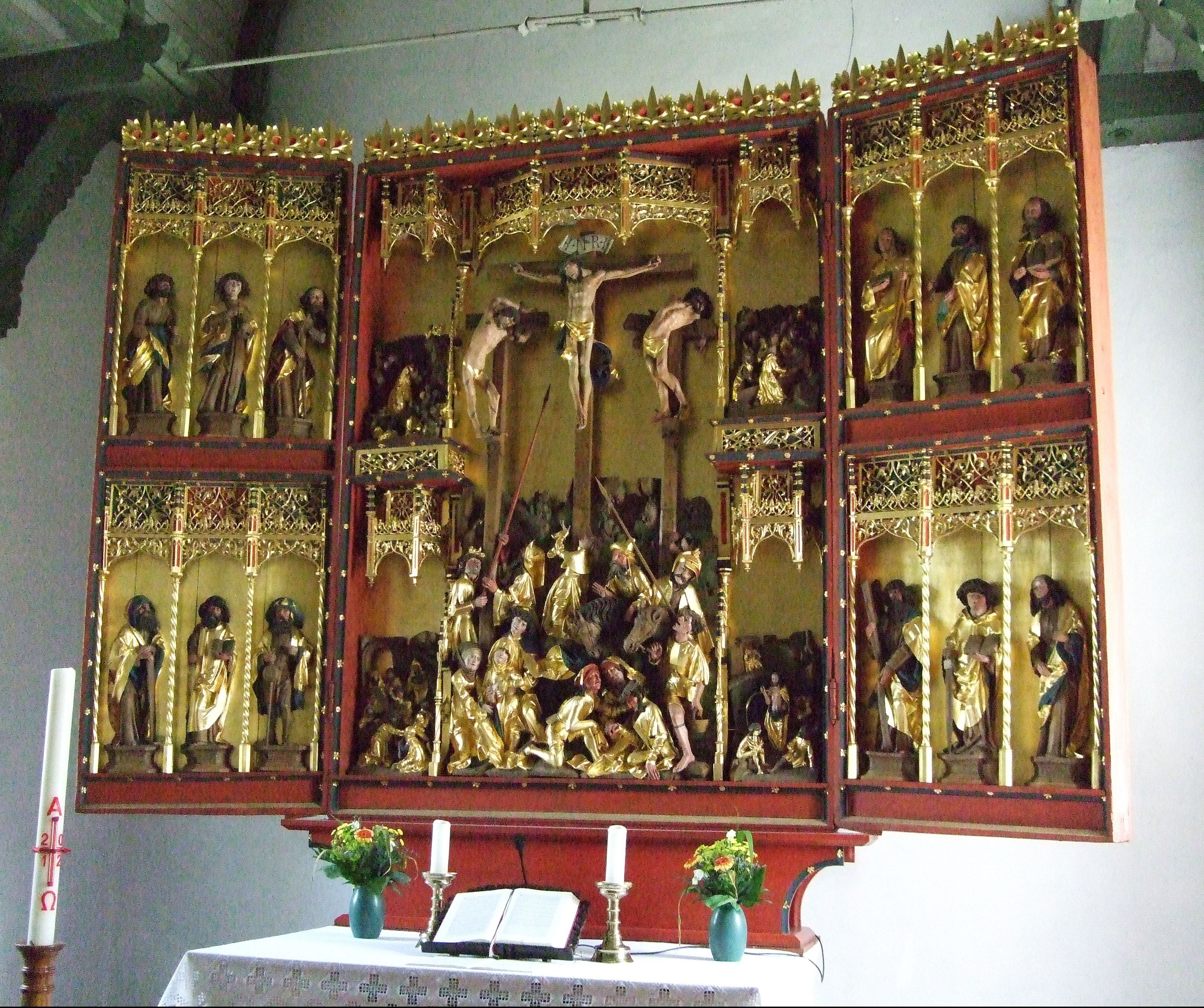 triptych in the church St. Jakobi in Schwabstedt, Schleswig-Holstein, Germany